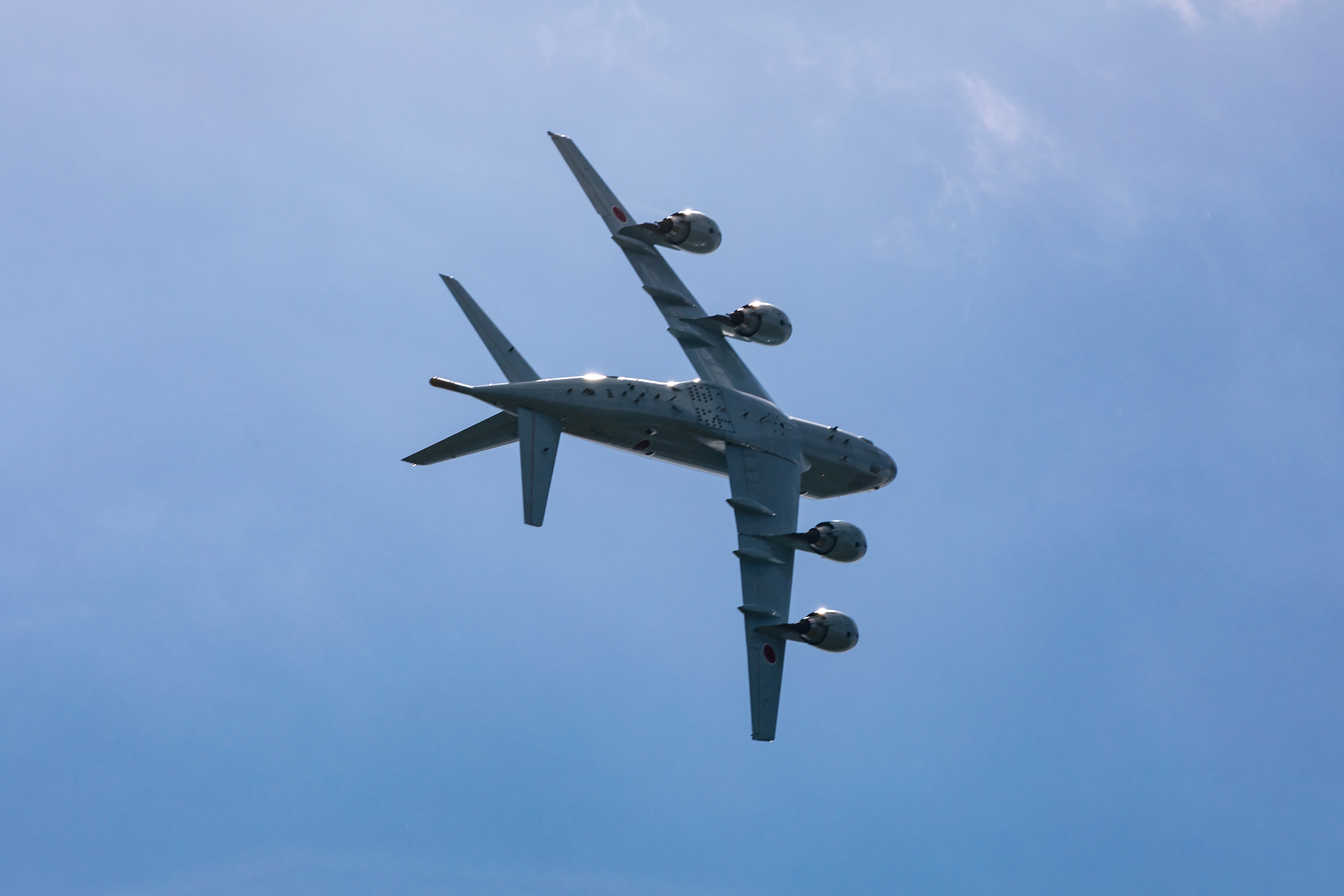 Kawasaki P-1 overbanking in flying display at ILA 2018